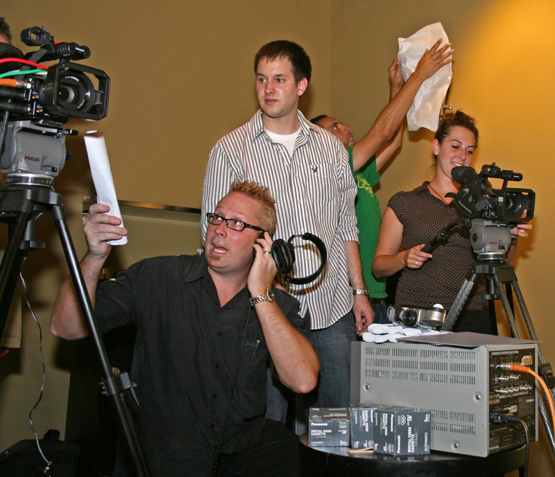 Van Vandegrift (seated at center) on the sound stage prepping for a new production.